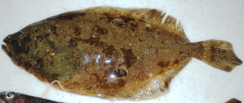 Four Spotted Flounder, Hippoglossina oblonga